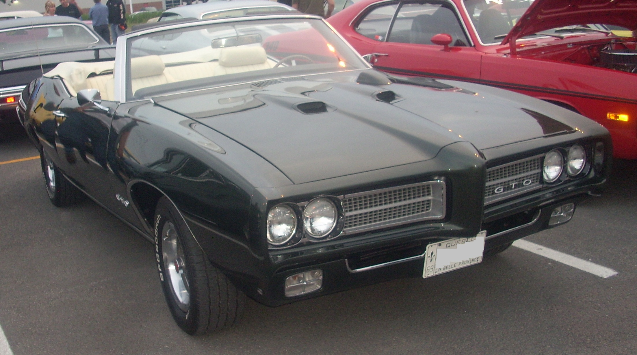 1969 Pontiac GTO photographed in Laval, Quebec, Canada at Centropolis Laval.